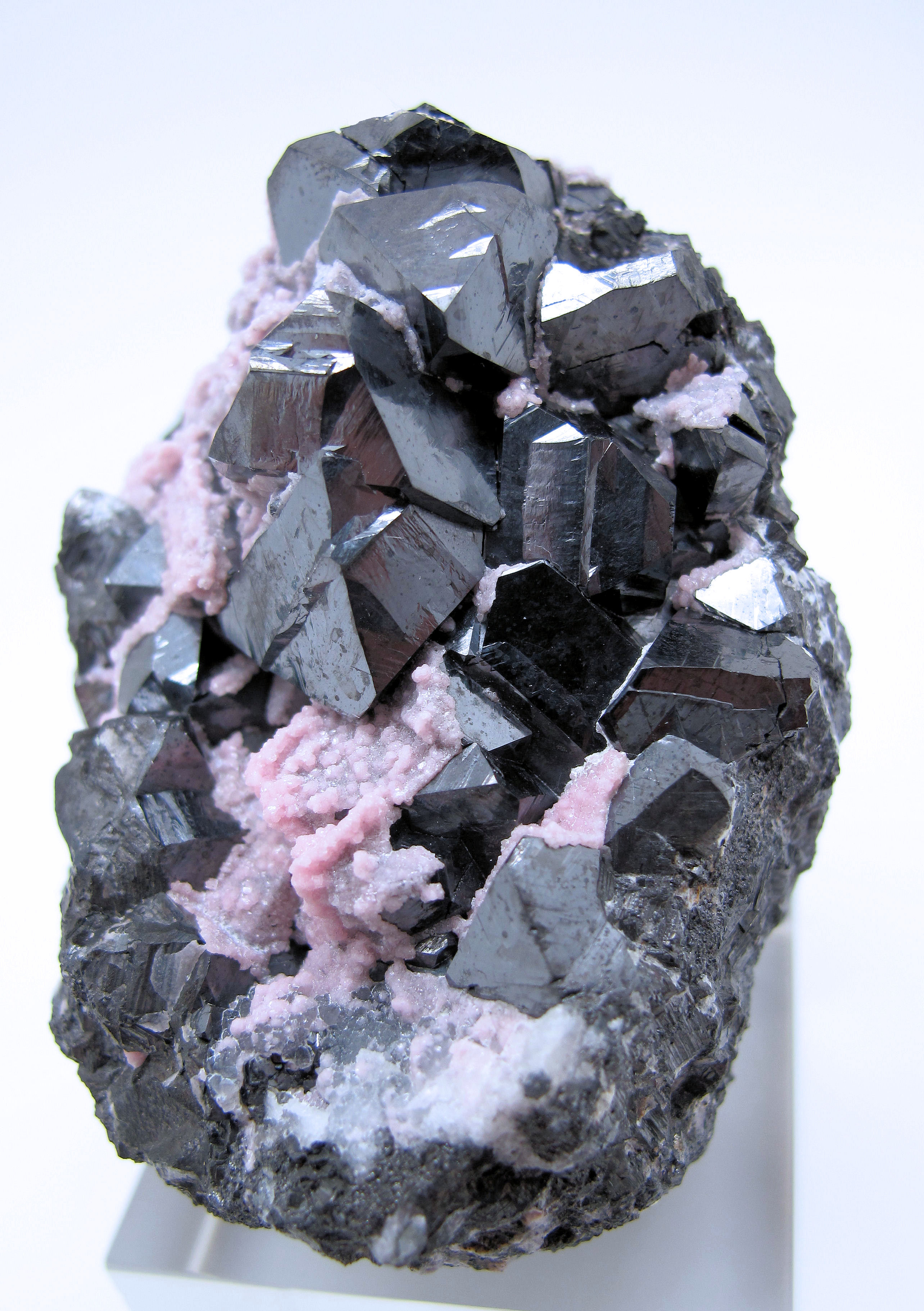 Group of octahedral {111}, bright metallic black color, alabandite crystals partially coated with pink microcrystalline rhodochrosite. From a new pocket found on late February 2011 next to the area where the silver ore is being worked. It shows some spinel law twins. Size: 60 mm x 59 mm x 46 mm. Major crystal: 20 mm tall, 14 mm on edge. Weight: 204 g. From Uchucchacua Mine, Oyon Province, Lima Department, Peru.